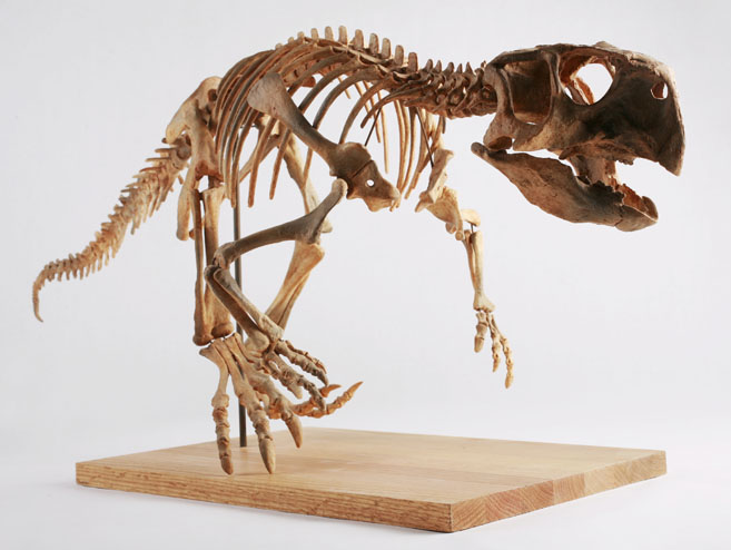 A Psittacosaurus skeleton cast in the permanent collection of The Children’s Museum of Indianapolis.